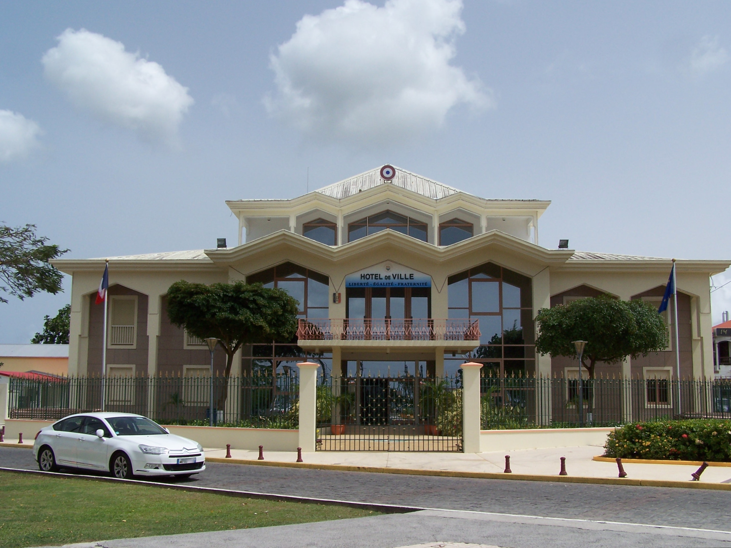 View of the cityhall of Baie-Mahault, Guadeloupe